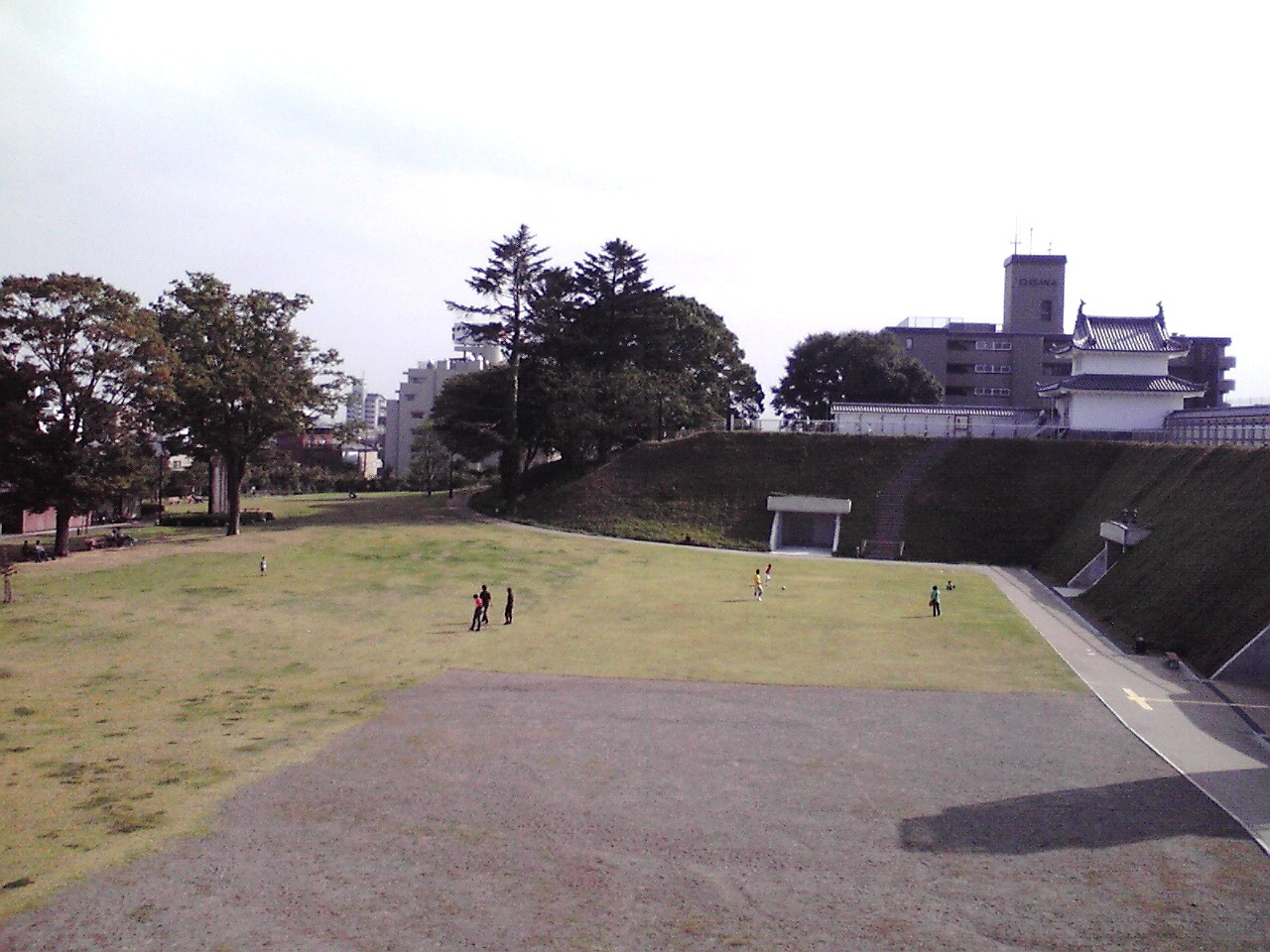 Utsunomiya castle ruins Park, in Tochigi, Japan.